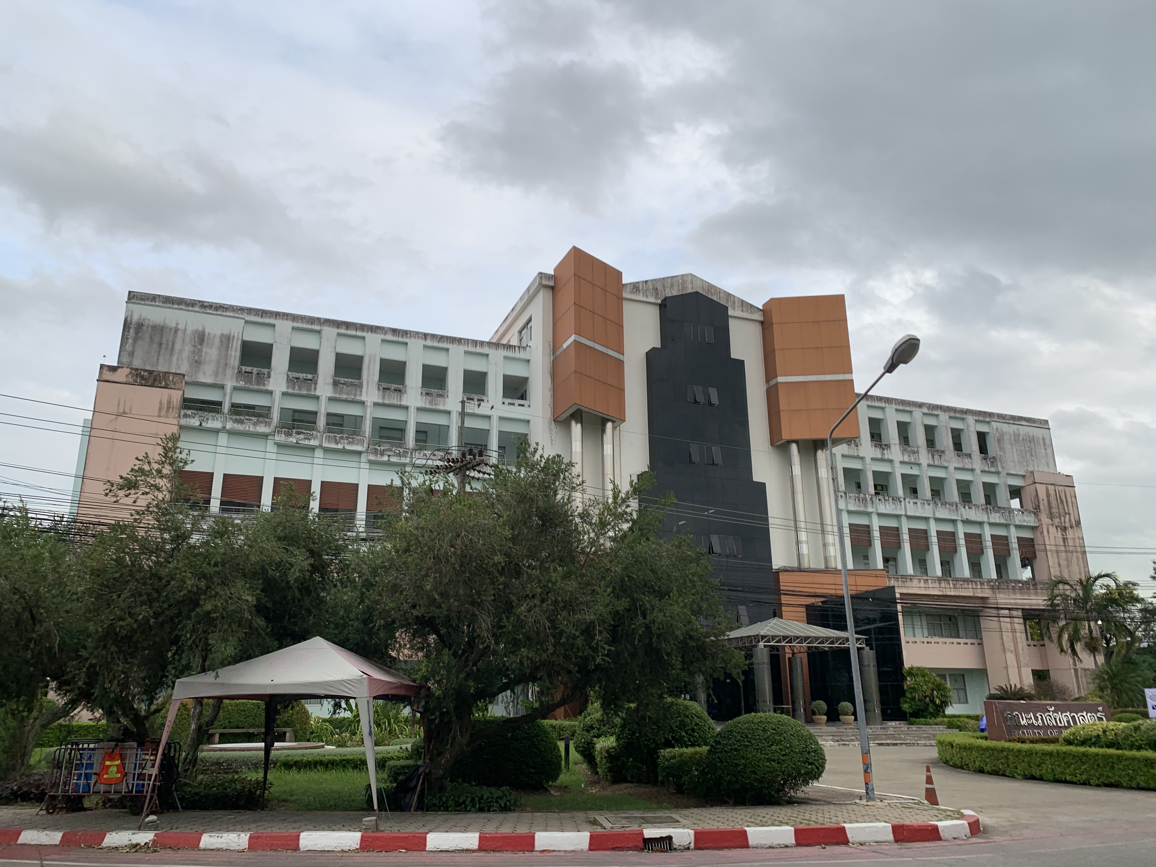 Faculty of Pharmaceutical, SWU Ongkharak